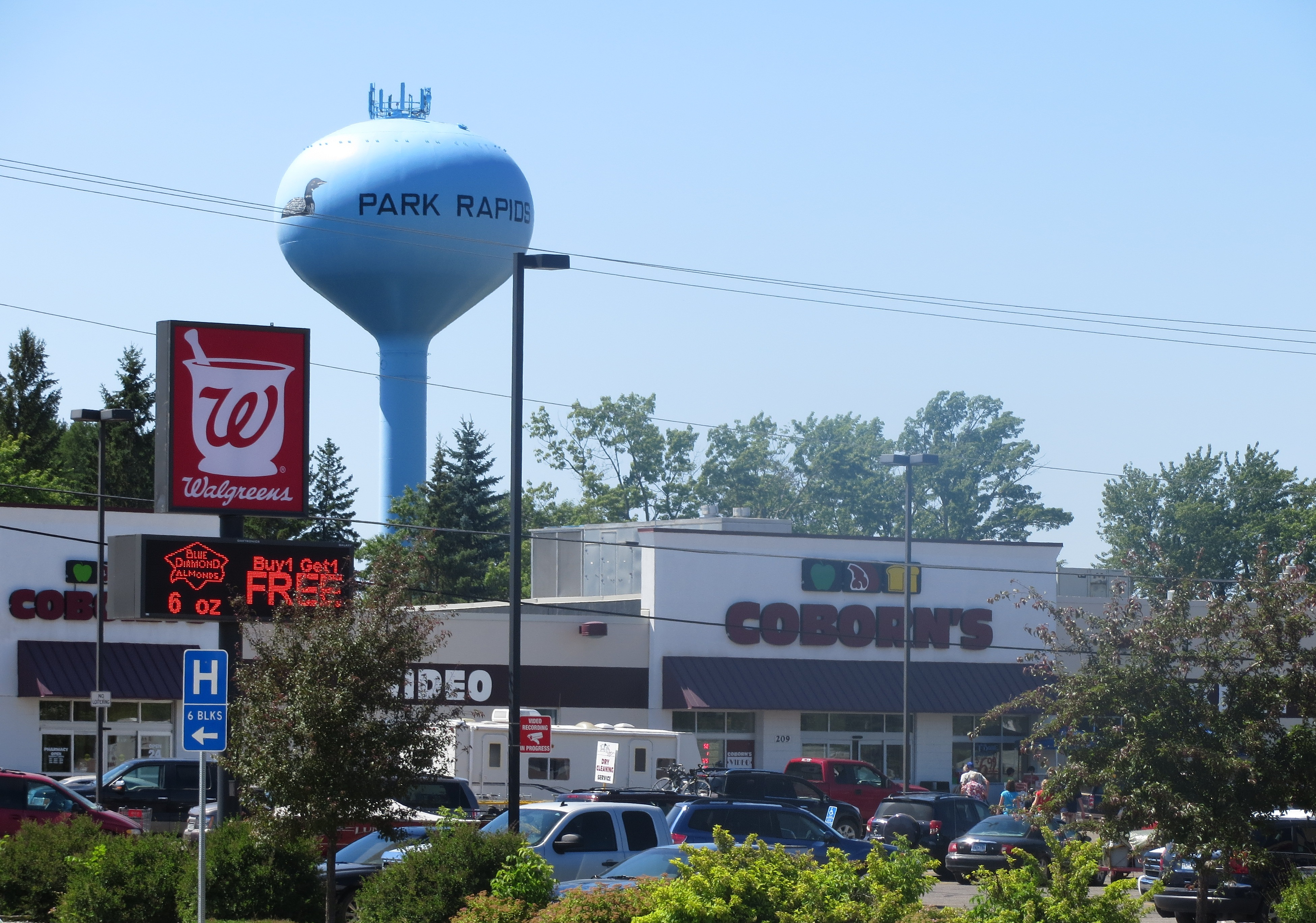 Image from Hubbard County in northern Minnesota, USA